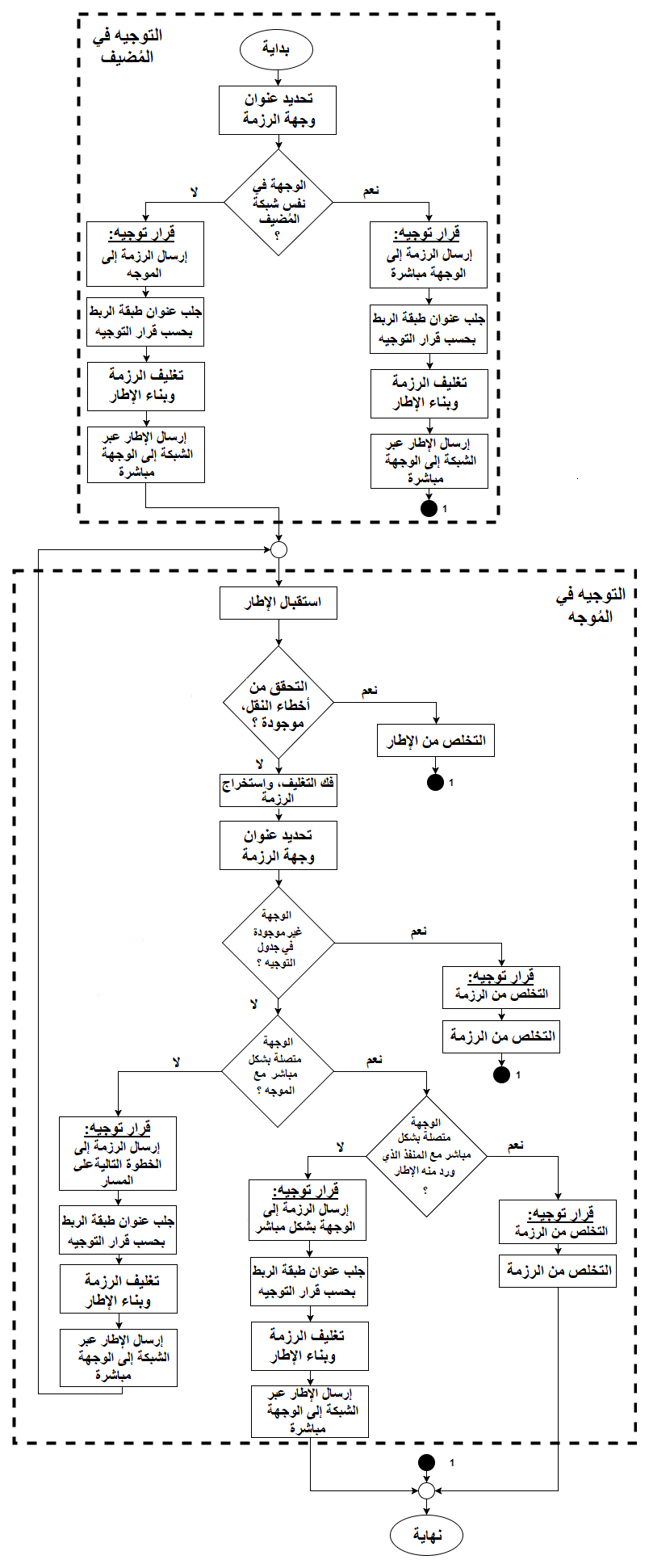 The flow chart for the routing process of unicast or broadcast packets in the host and routers.